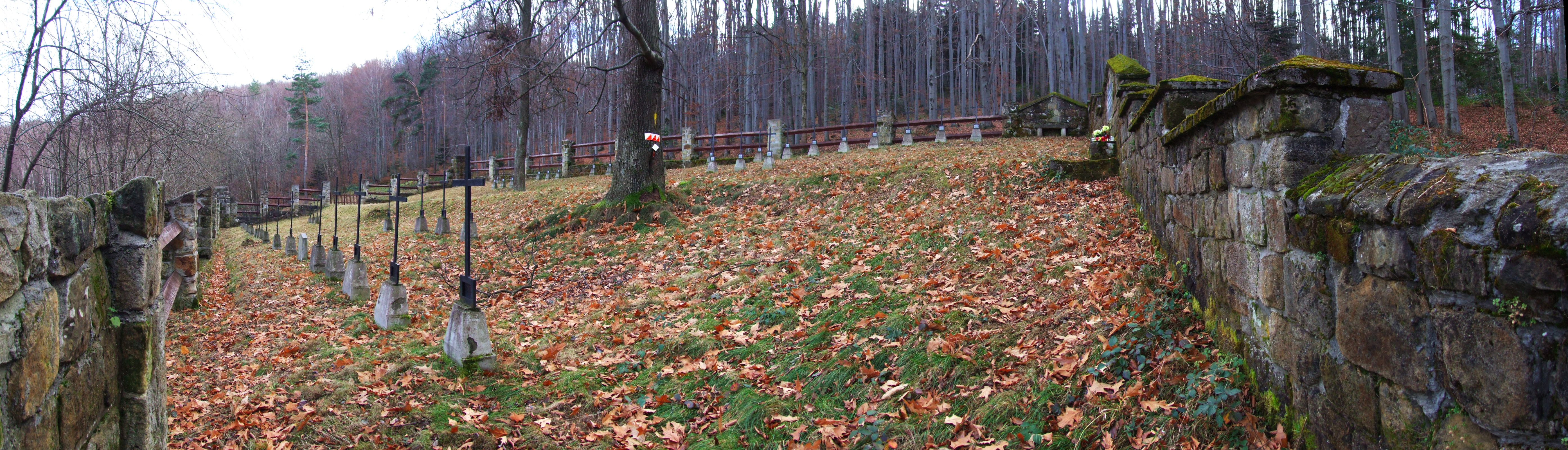 World War I Cemetery nr 300 in Rajbrot-Kobyła